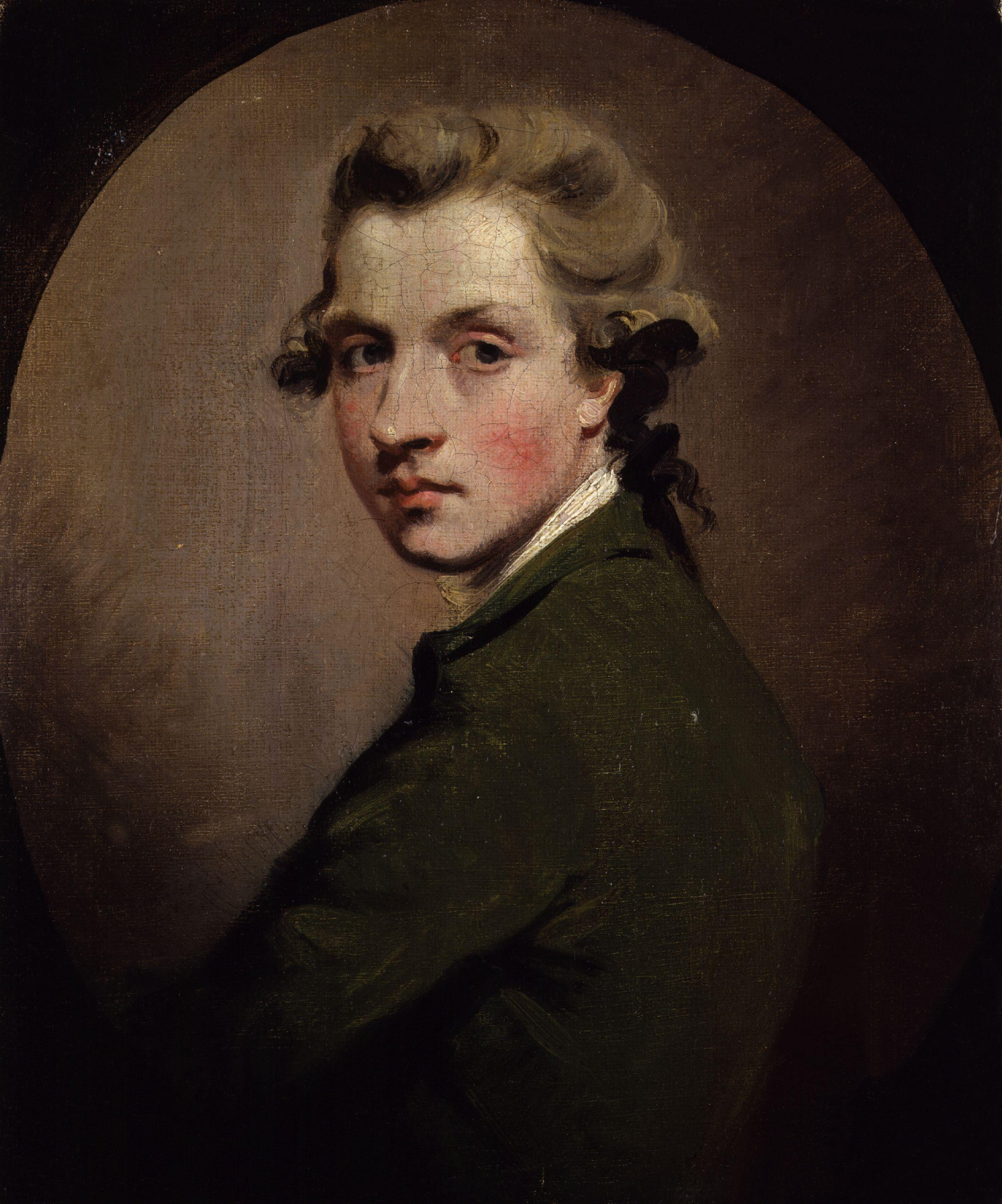 William Doughty, by William Doughty. All images in this batch have a known author, but have manually examined for strong evidence that the author was dead before 1939, such as approximate death dates, birth dates, floruit dates, and publication dates.